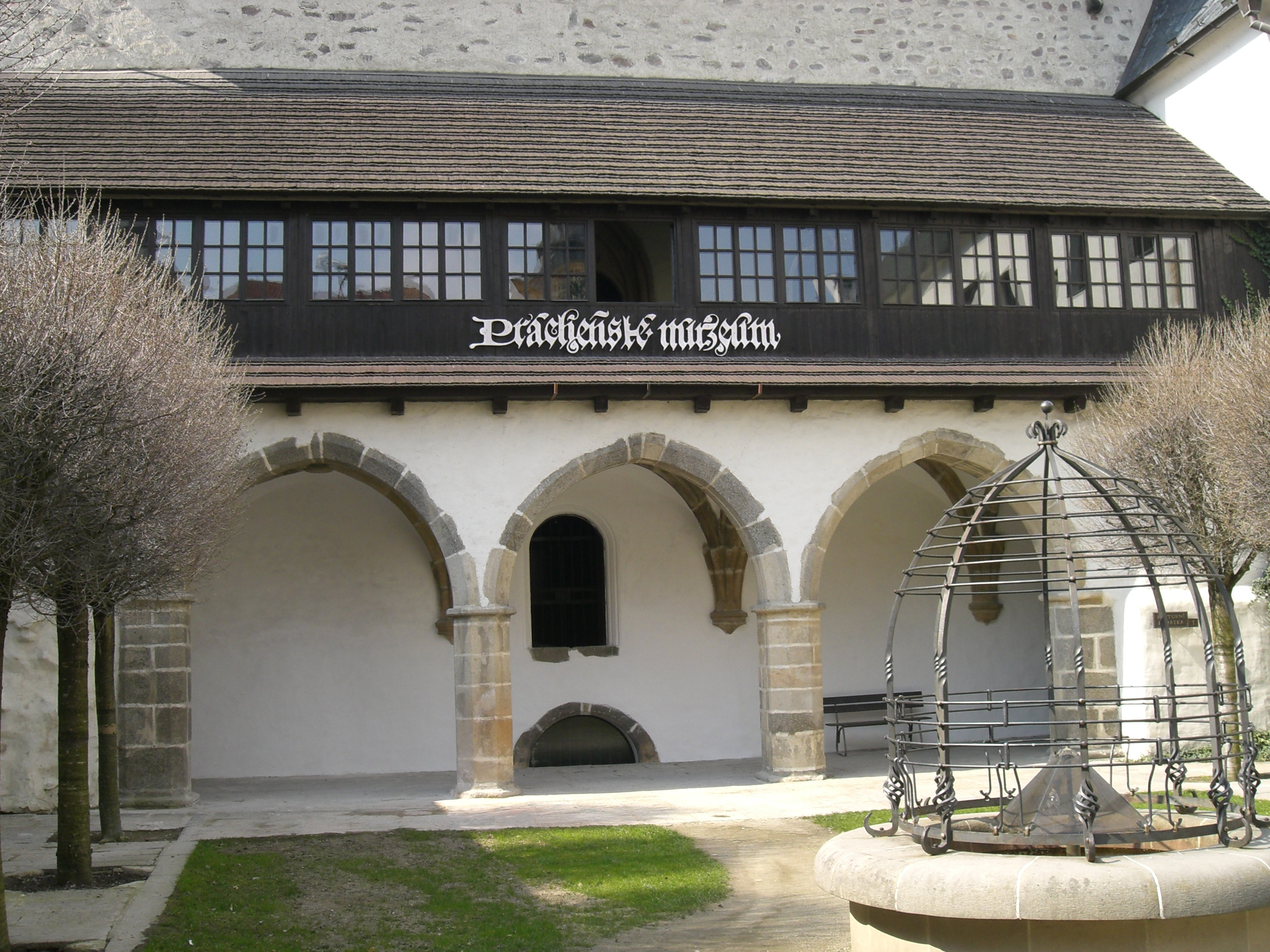 Castle in Písek from the town-hall sight, where the entrance to the Prácheňské muzeum is.